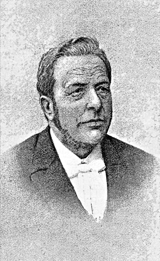 Portrait of Engebret Hougen, published 1891 in the journal Skilling-Magazin. Unknown artist, probably died more than 70 years ago.